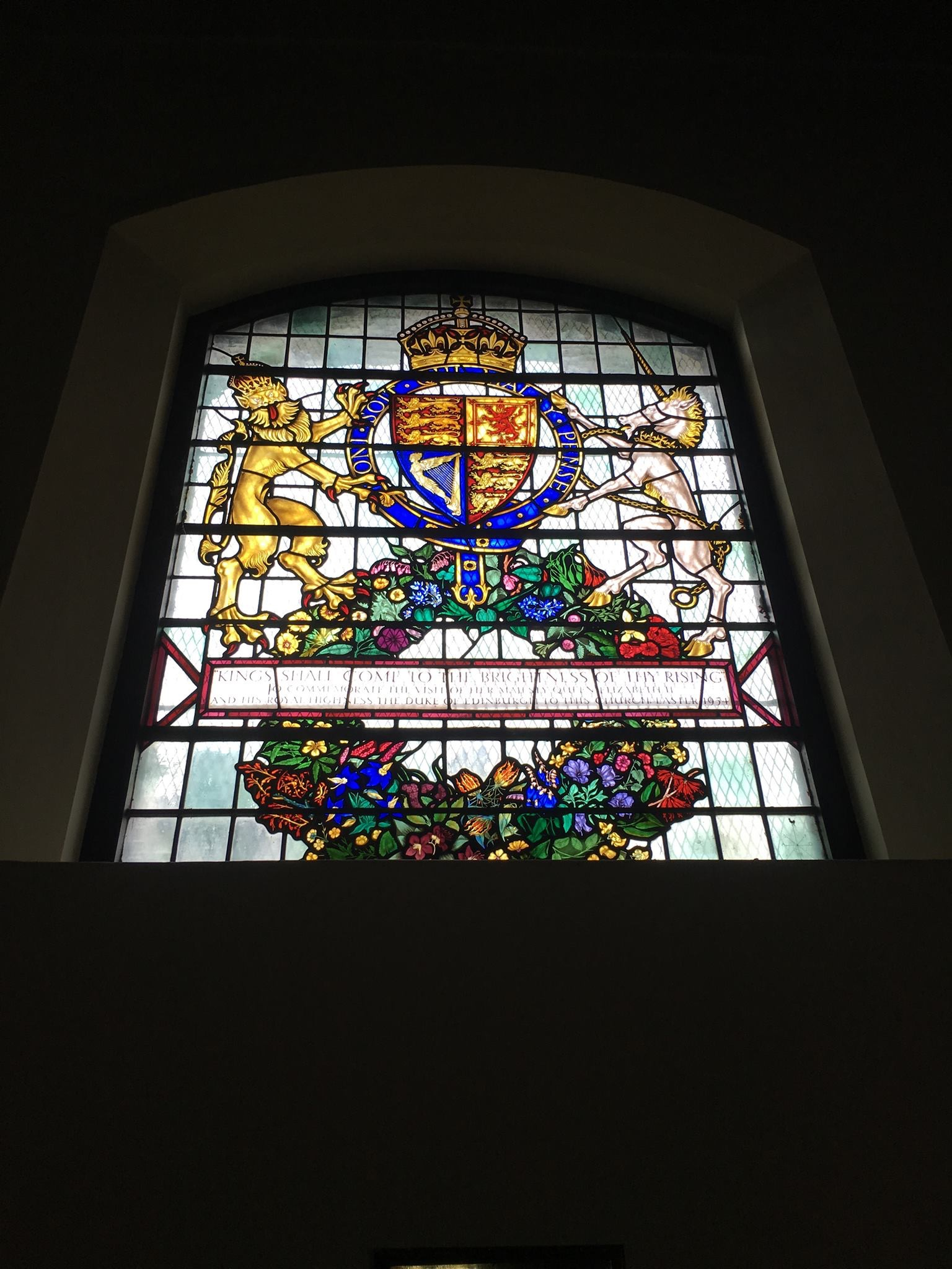 Commemorative stained glass window in Holy Trinity Church, Nuwara Eliya. Donated by Queen Elizabeth II during her visit on 18 April 1954